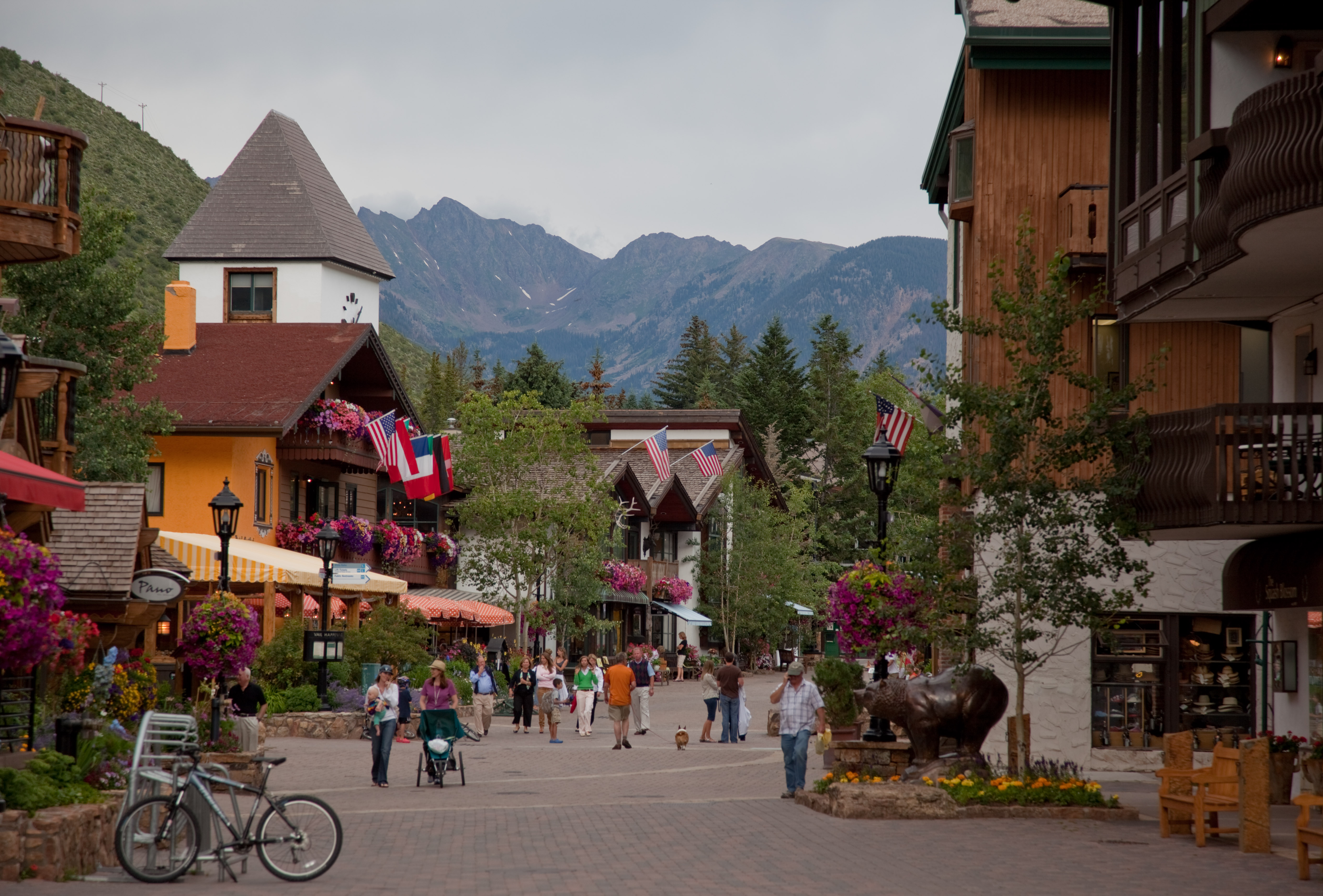 Gore Creek Drive, Vail, CO